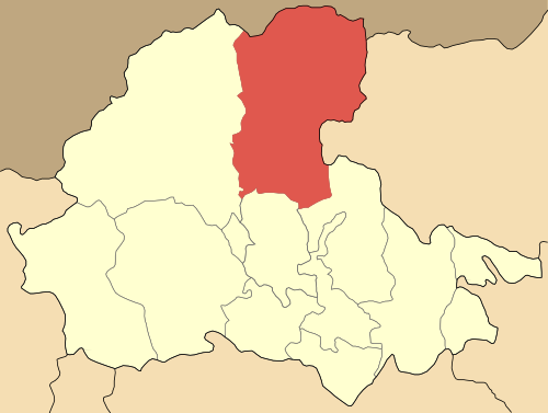 Locator map of Eksaplatanou municipality (Δήμος Εξαπλατάνου) at Pellas perfecture, Macedonia, Greece.